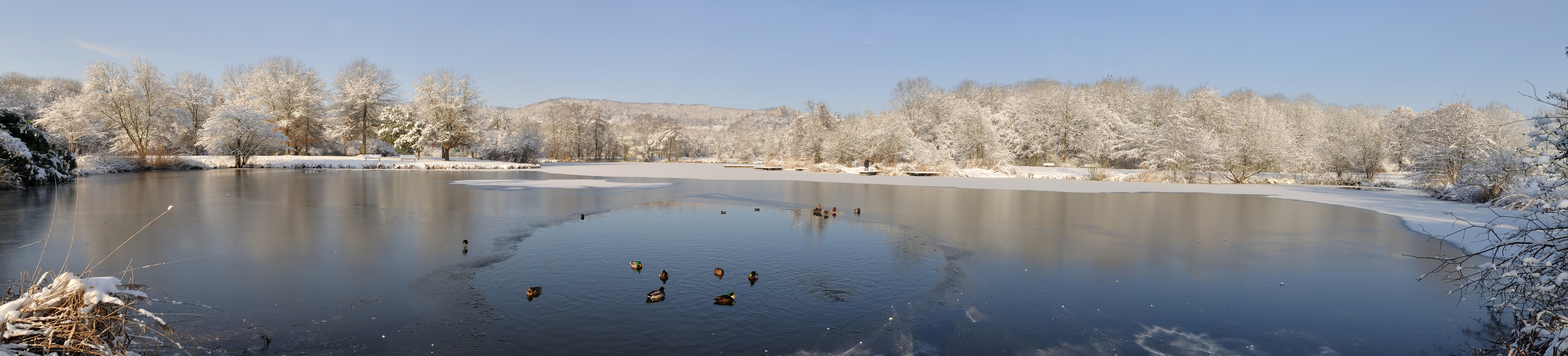 Lörrach: lake Grütt at winter time